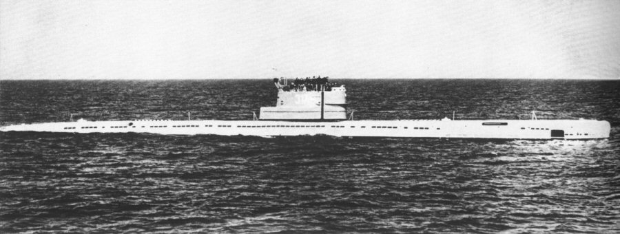 ORP Orzeł underway to Murmansk in 1968, with the 317 hull number used temporarily. Picture scanned from a book "Marynarka Wojenna 1945-1970", Wydawnictwo Morskie, Gdańsk, 1971